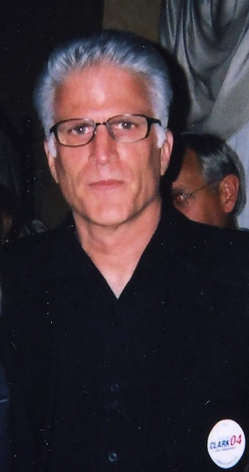 This photo was taken of Ted Danson in 2004 when he was with his wife Mary Steenburgen campaigning in Flagstaff, Arizona for General Wesley Clark and John Kerry.